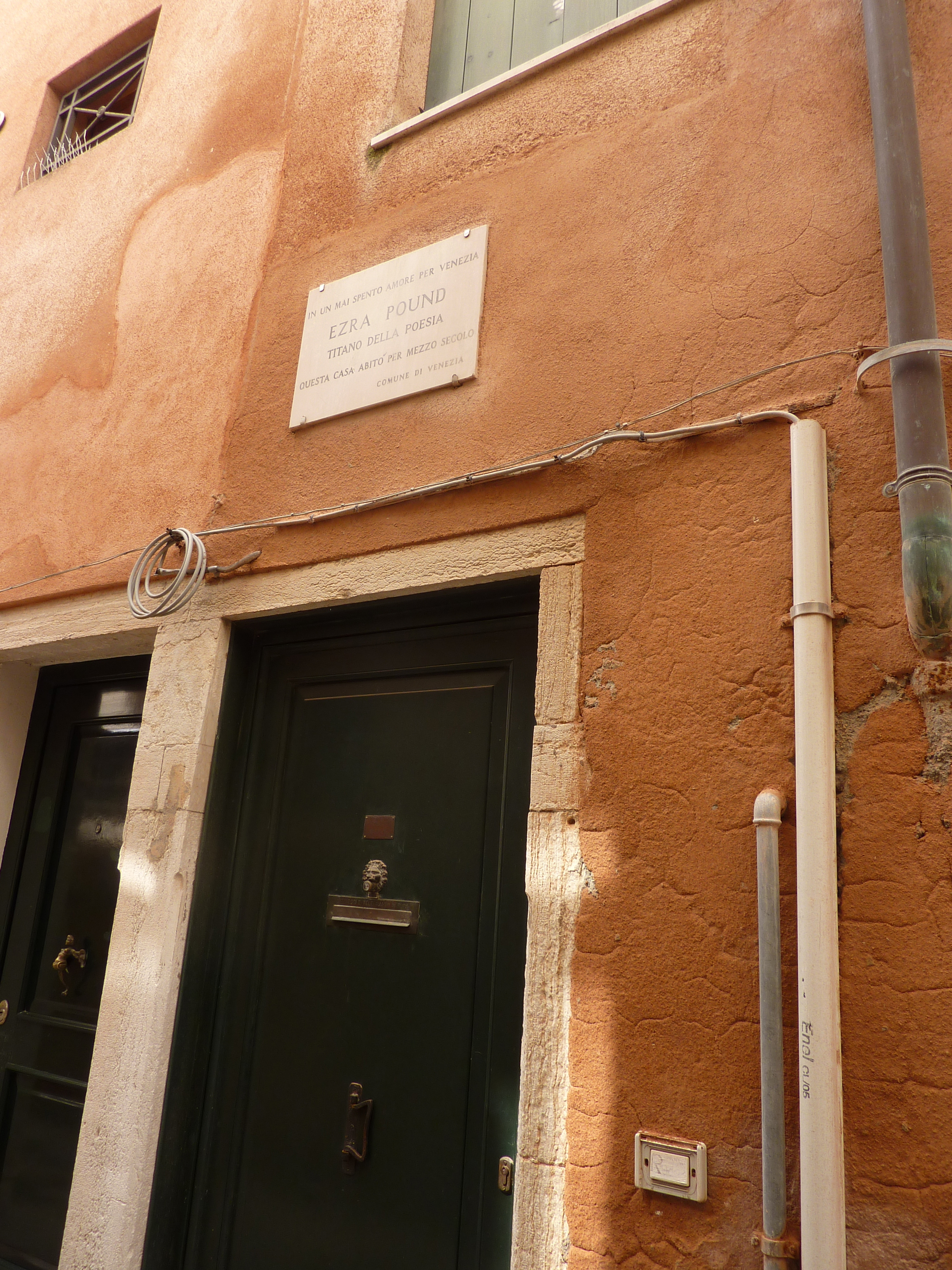 House of Olga Rudge, violinist and mistress of Ezra Pound